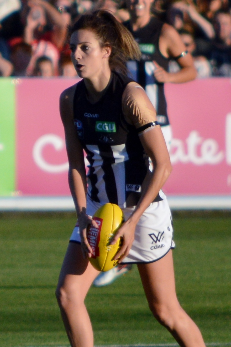 Steph Chiocci playing for Collingwood during an AFL Women's match in February 2017.